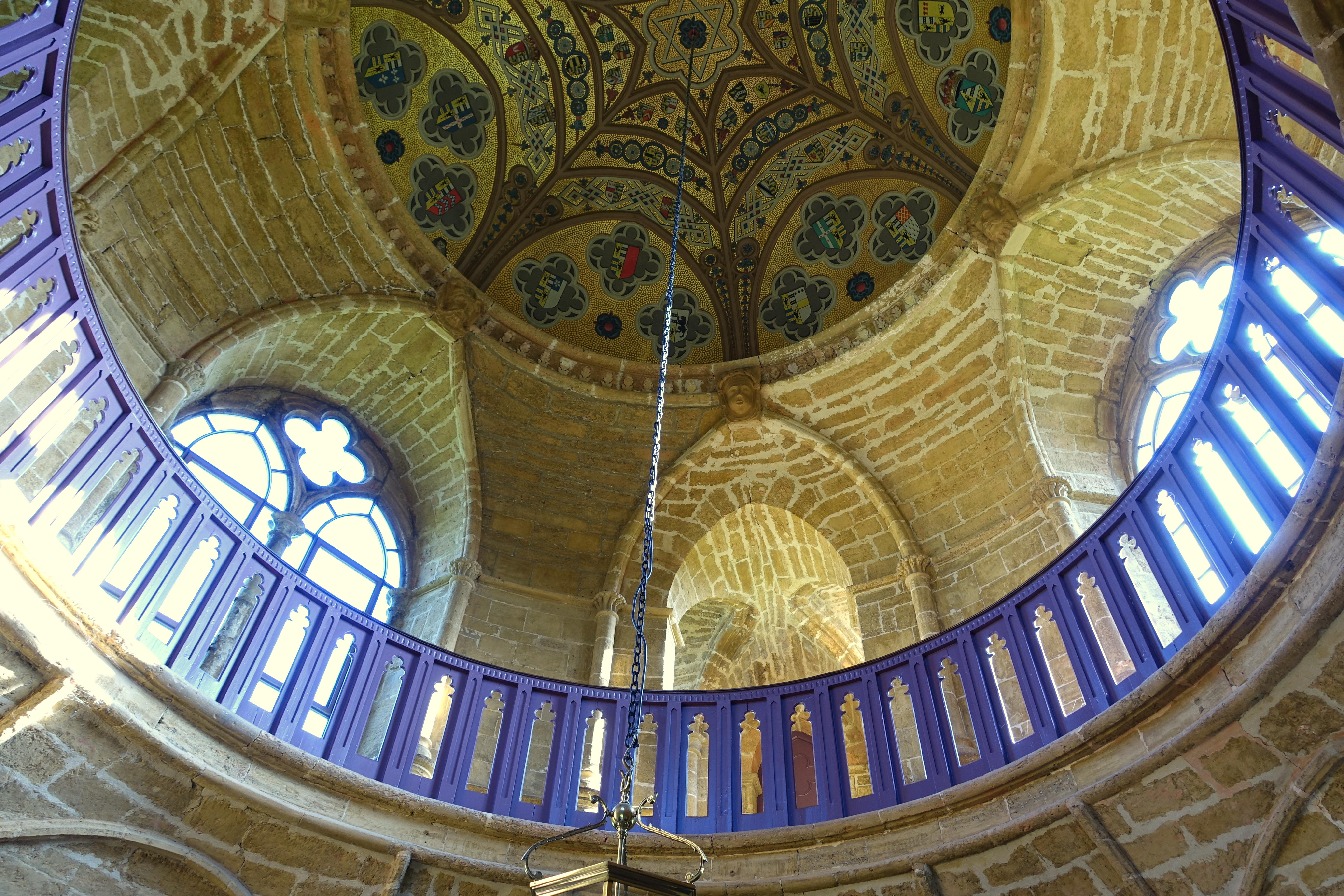 Gothic Temple, Stowe - Buckinghamshire, England.